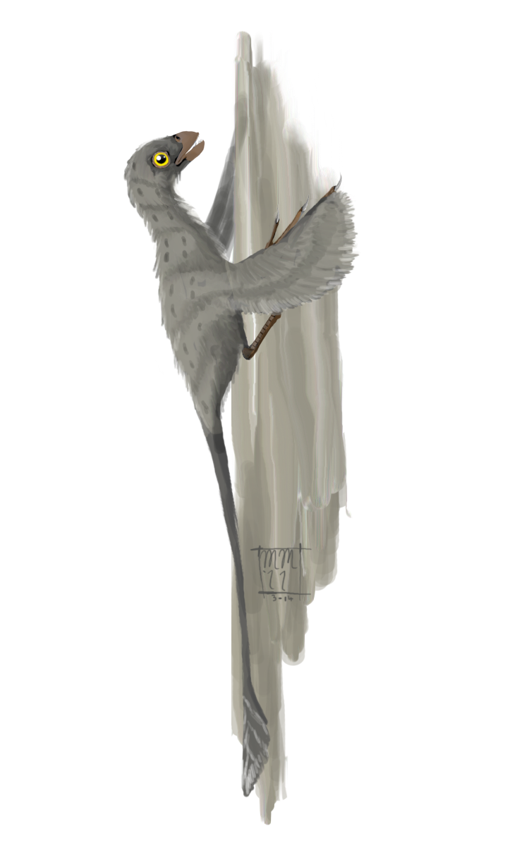 Illustration of a hatchling Scansoriopteryx heilmanni as it may have appeared in life. Credit Matt Martyniuk, .